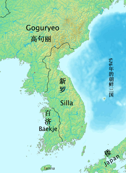 576年的朝鲜三国